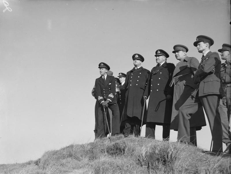 Rear Admirals Watch Combined Operations Training. 8 February 1943, Dundonald Camp. Rear Admiral T H Toubridge and Rear Admiral C S Daniel (centre) watching an exercise during a visit to a Combined Operations training centre.